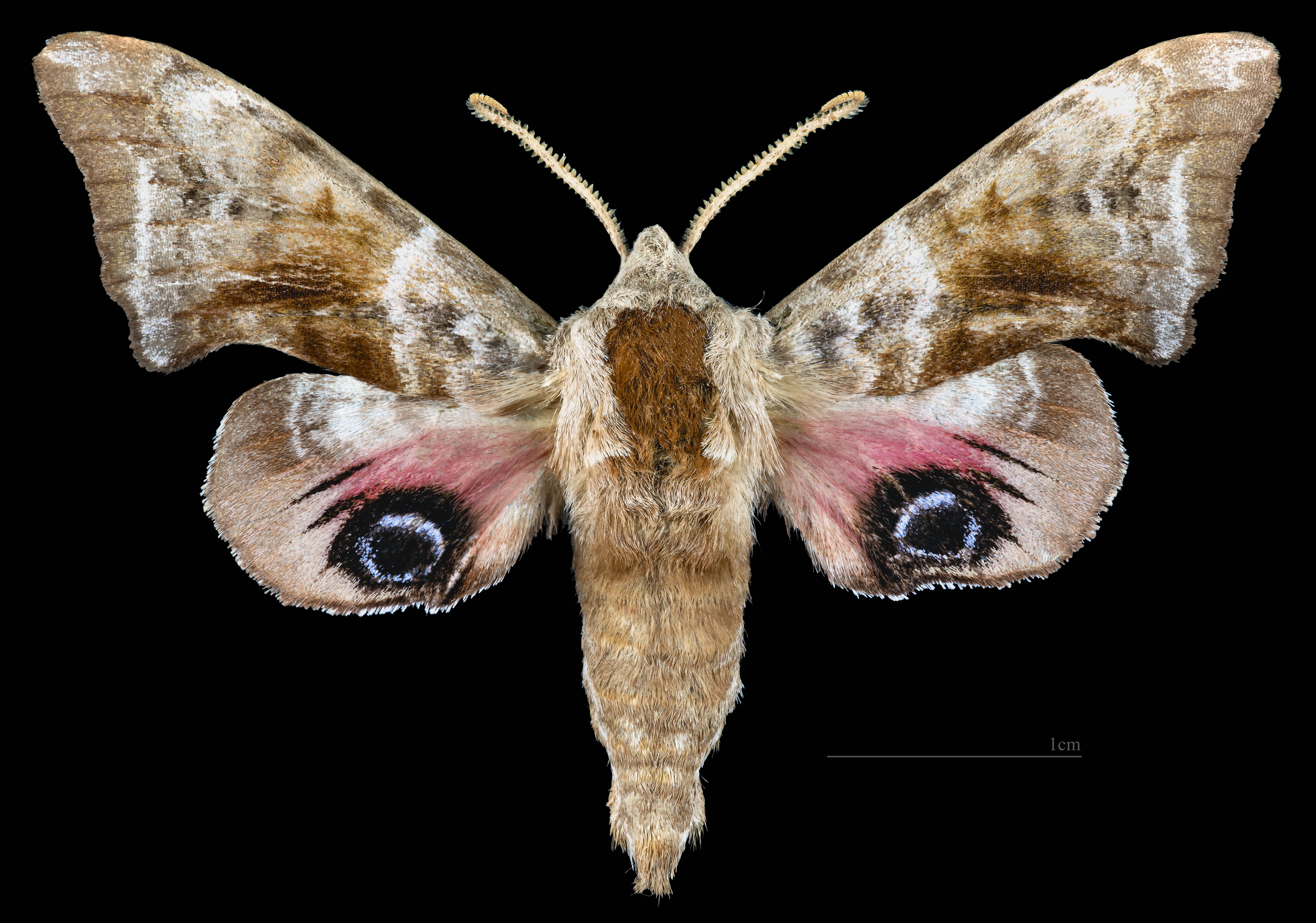 Smerinthus tokyonis - Dorsal side Collection of the Mathematician Laurent Schwartz